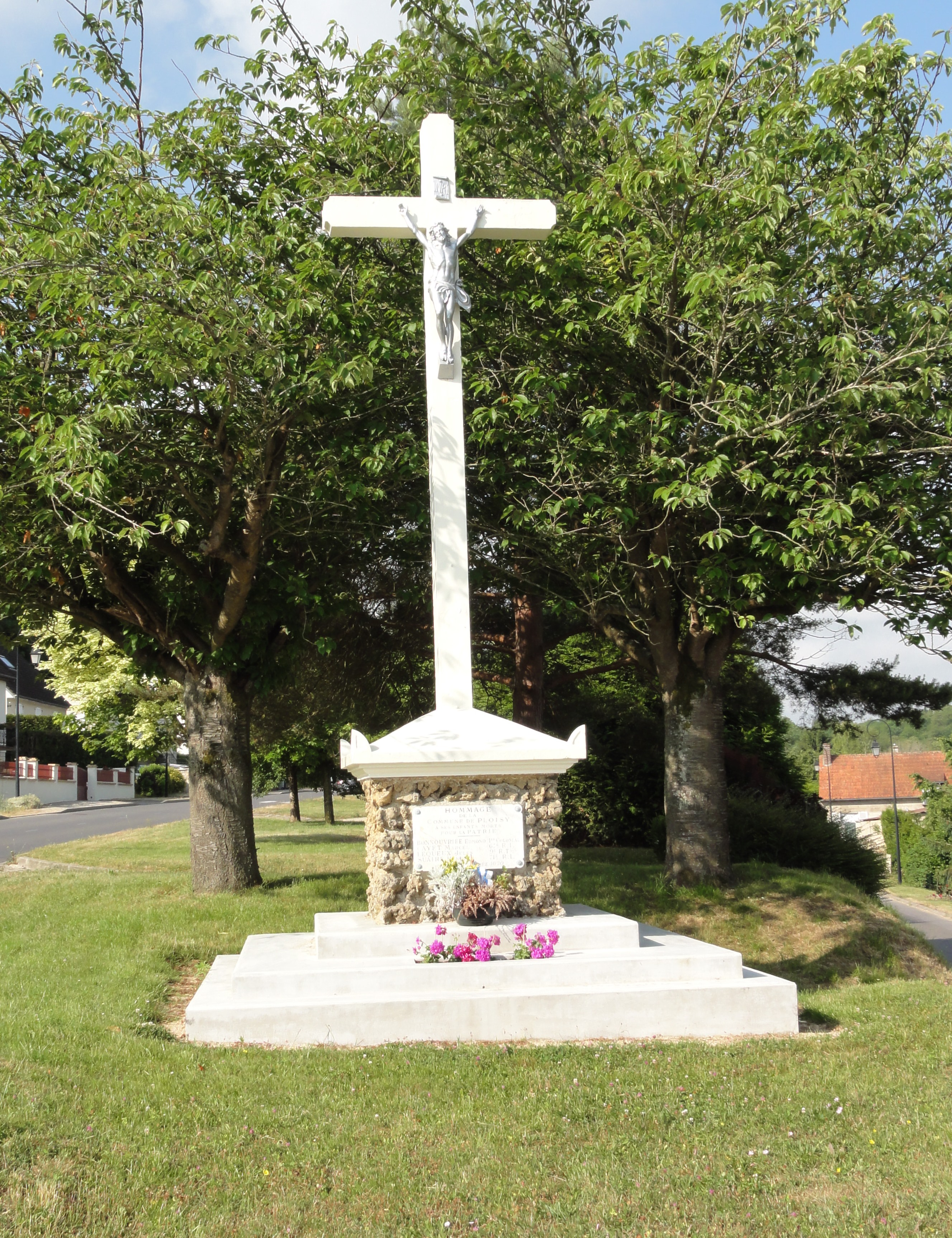 Ploisy (Aisne) monument aux morts avec croix